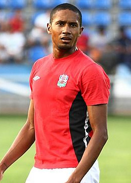 Brazilian defender Leandro